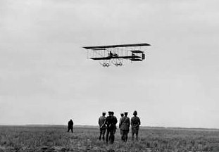 Unidentified men watching a Bristol Boxkite training aircraft flying over Point Cook, Victoria.